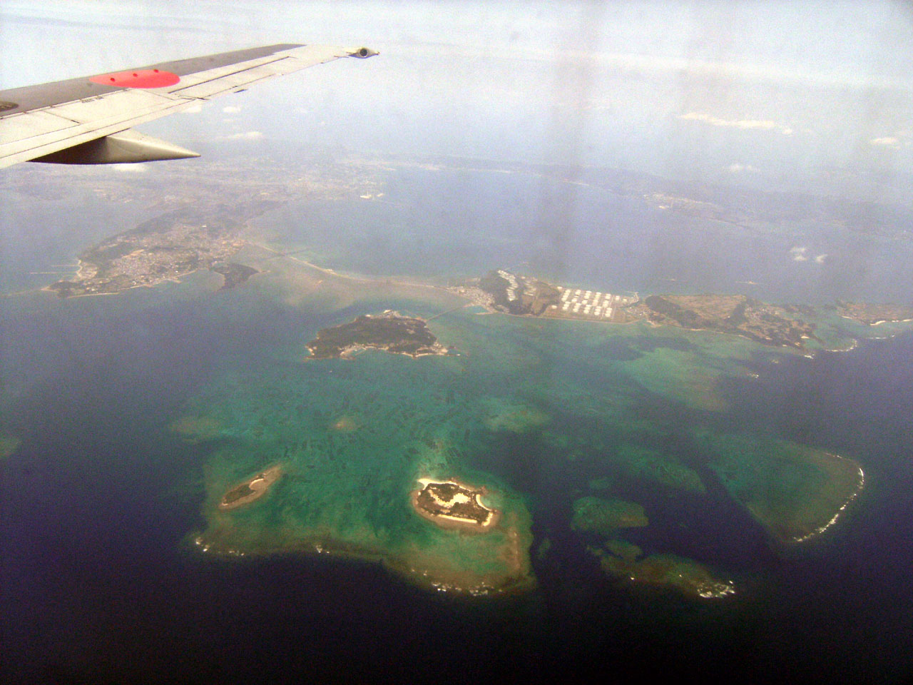 Kaichu Doro (Sea Road) bridge, Uruma, Okinawa.